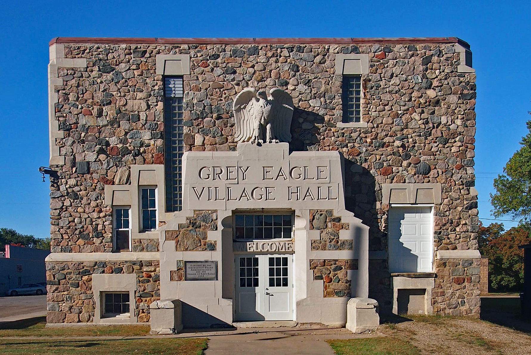 Grey Eagle Village Hall, Grey Eagle, Minnesota, USA. Viewed from the south.